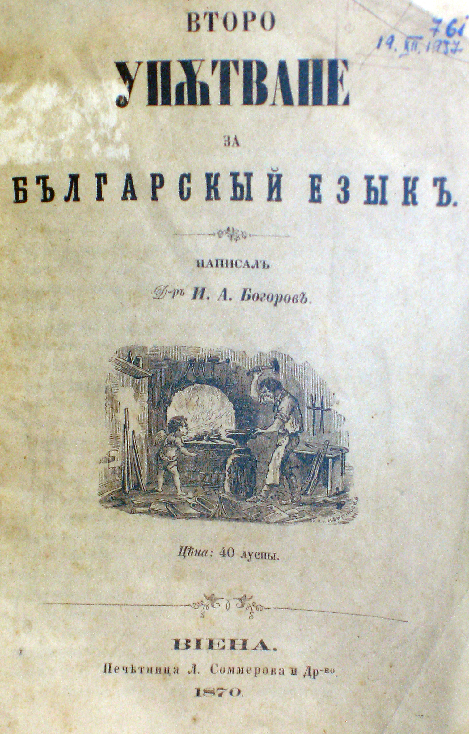 Ivan Bogorov "Second instruction for the Bulgarian language", 1870 in the collection of Stara Zagora's Regional history museum